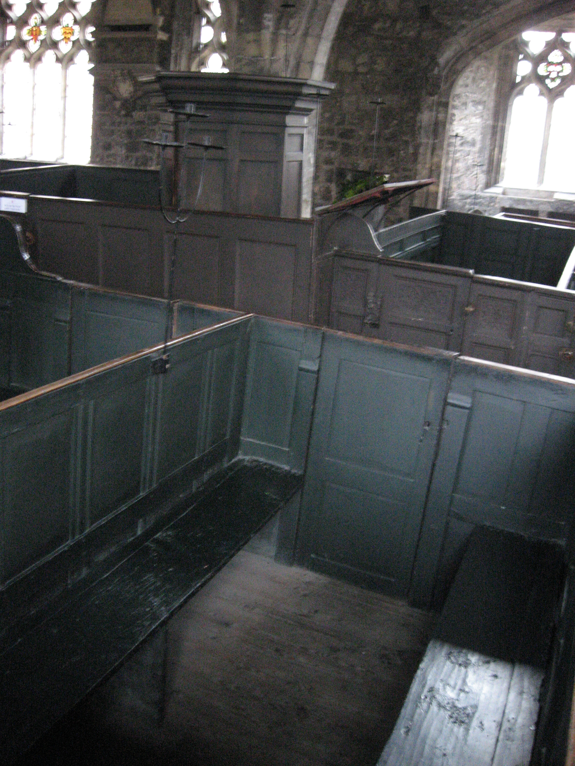 Box pews in Holy Trinity parish church, Goodramgate, York, England